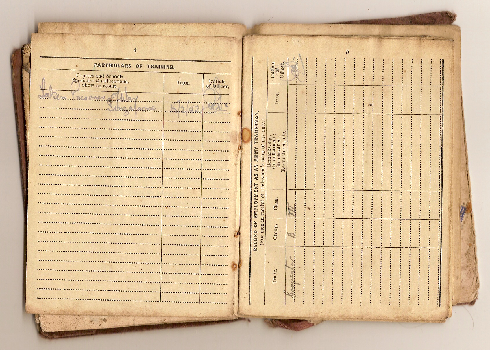 The paybook of Pte Reginald Symonds, taken from the Symonds family archive. Pte Symonds, part of 5 Platoon, 1 Battalion, Cambridgeshire Regiment, was captured by the Japanese at Singapore approximately two weeks after arriving on the USS West Point. This paybook was held by Pte Symonds throughout his captivity by the Japanese throughout the Second World War. He returned to civilian life in the United Kingdom in 1947. The entry on the left reads: "Taken Prisoner of War / Singapore / 15/2/42". The right-hand entry reads: "Carpenter / B / III".